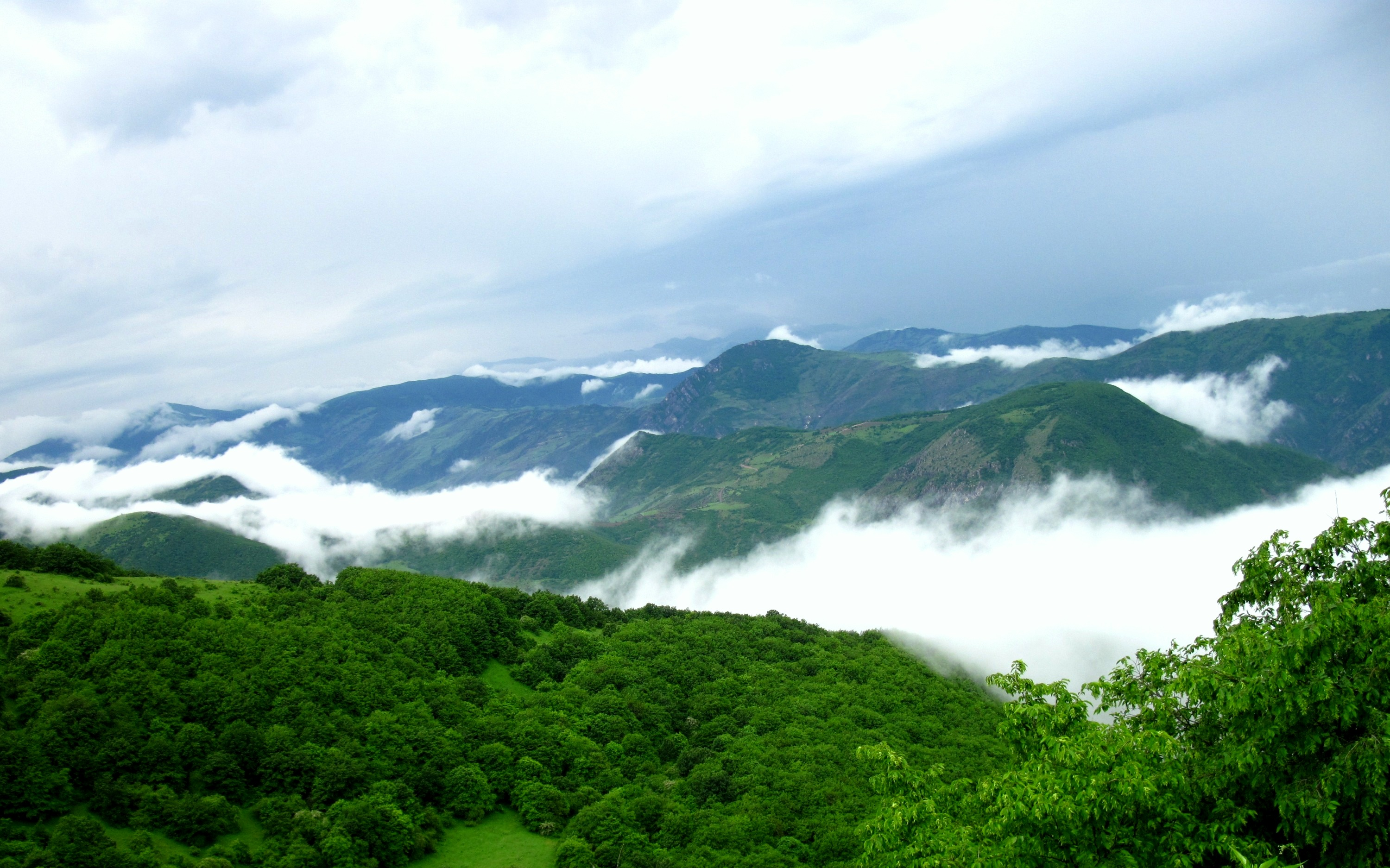 The mountainous parts of Arasbaran region in late June. The photo has also been uploaded on Panoramio with the title "The spring rains will come again!"